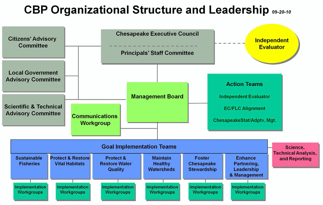 Organization chart of the Chesapeake Bay Program, United States.